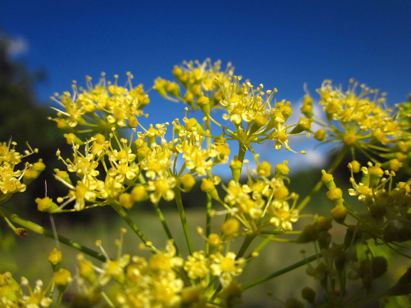 Peucedanum ruthenicum. Part of Inflorescence (double umbel). Oril river valley, Ukraine